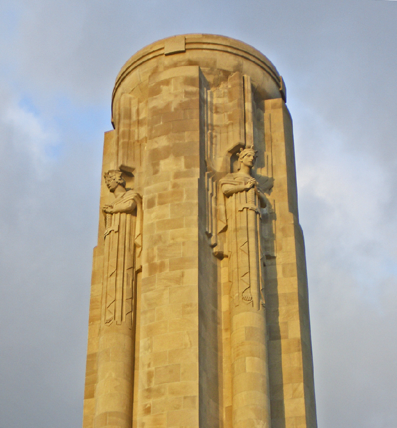 Liberty Memorial, Kansas City, Missouri, detail view of sculptures at top of column by Robert Aikten